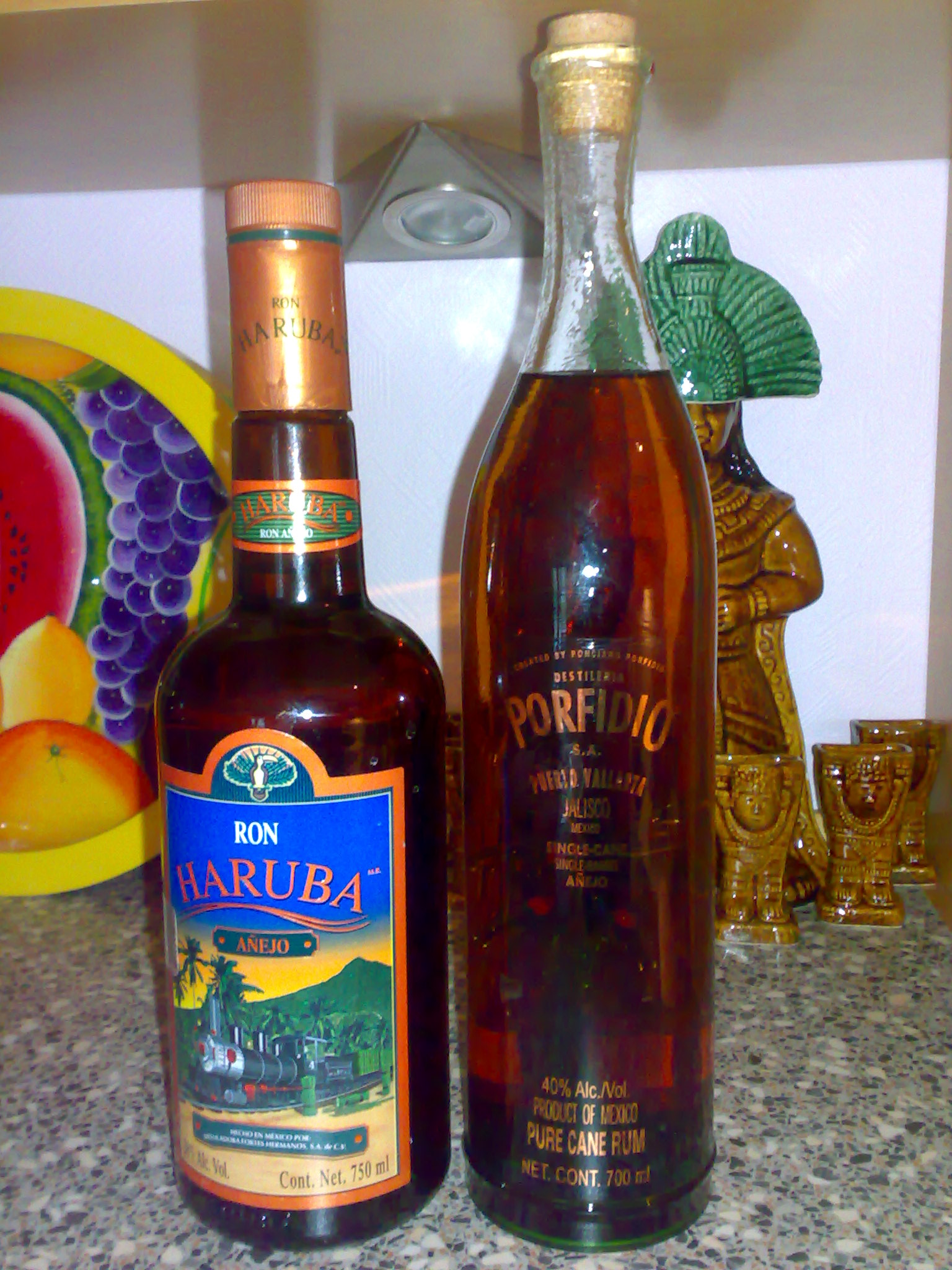 2 bottles of Mexican rum, Porfidio and Haruba